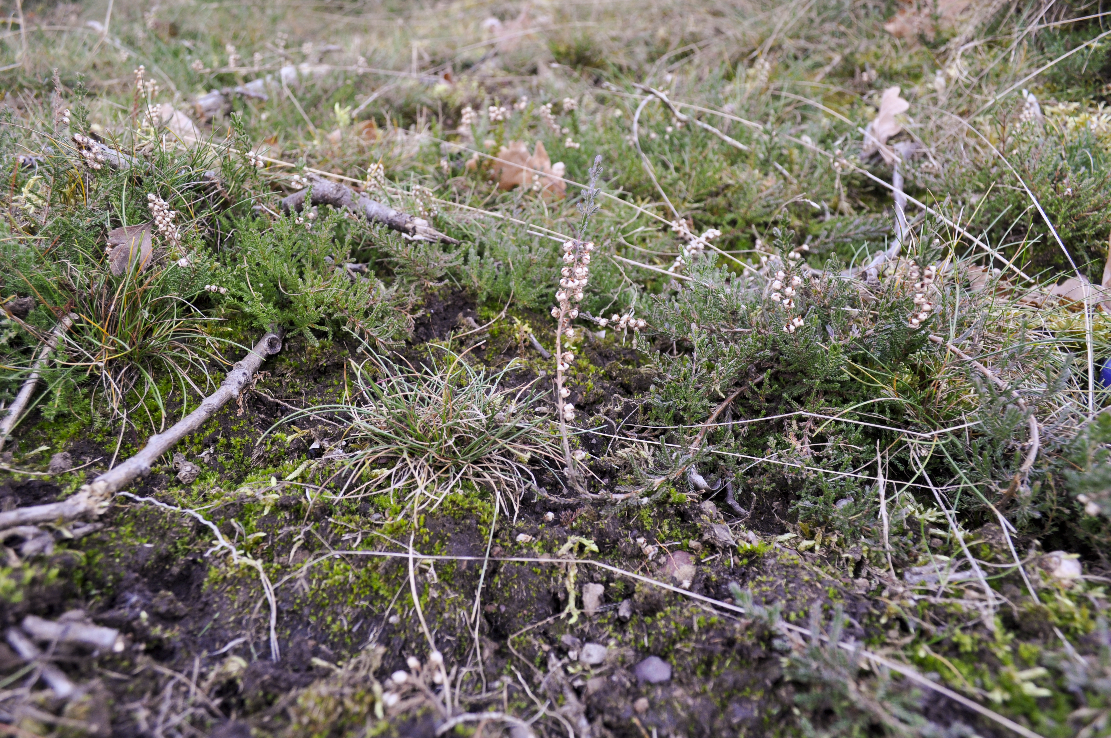 Natural Monument Zlatnice - rest of the heather